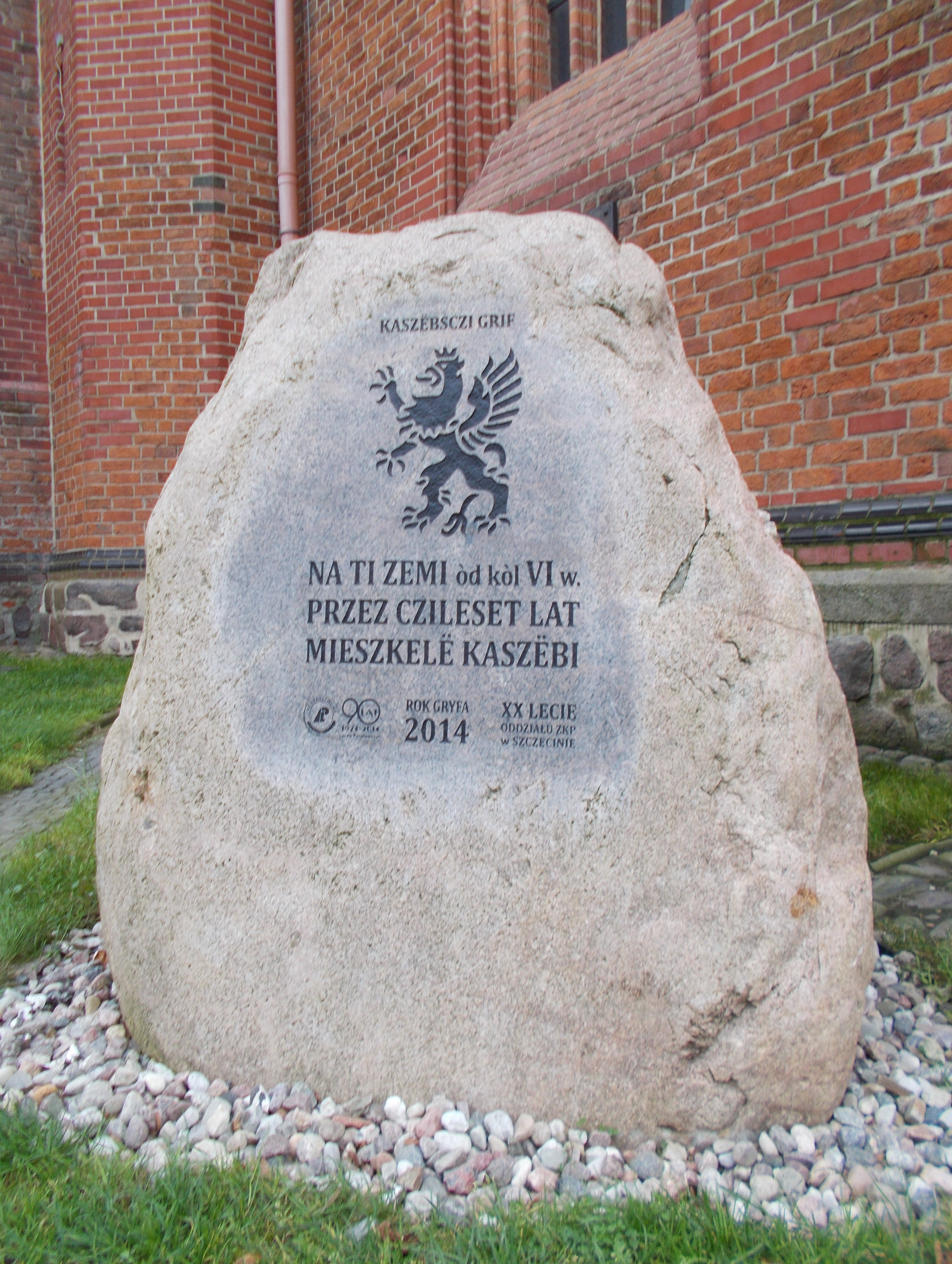 The stone near the Cathedral Basilica of St. James the Apostle in Szczecin with inscription 'Kashubian Griffin. On this land, from around the 6th century, Kashubians lived for several hundred years. The Year of Griffin 2014' Kaszëbsczi: Rzimskòkatolëcczi kòscół Sw. Jakùba Apòsztoła w Szczecënie. Kamiéń "Kaszëbsczi grif. Na ti zemi òd kòl VI w. przez czileset lat mieszkelë Kaszëbi. Rok Gryfa 2014"